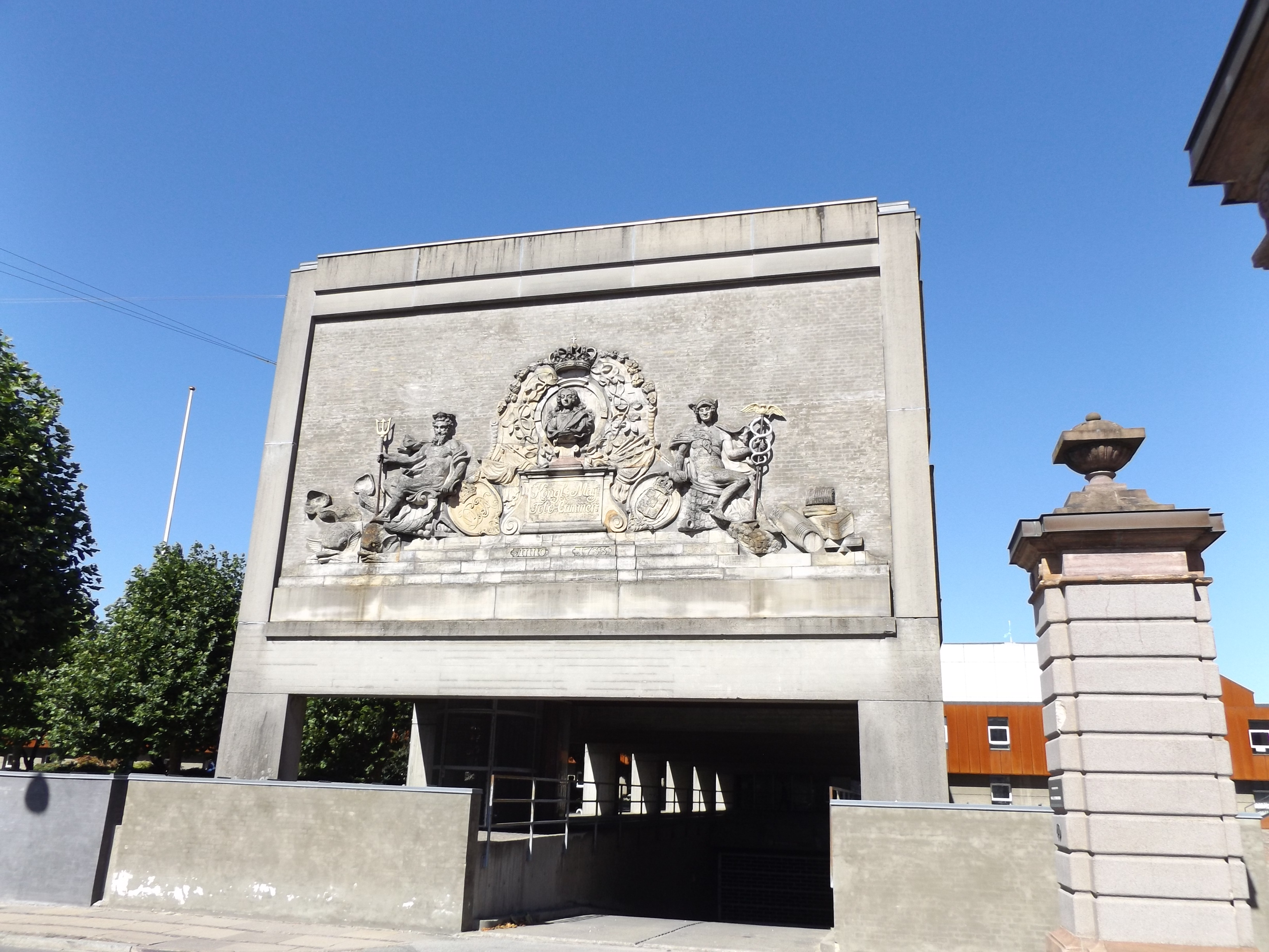 Relief from the former Custom House now located on Toldbodgade in Copenhagen, Denmark